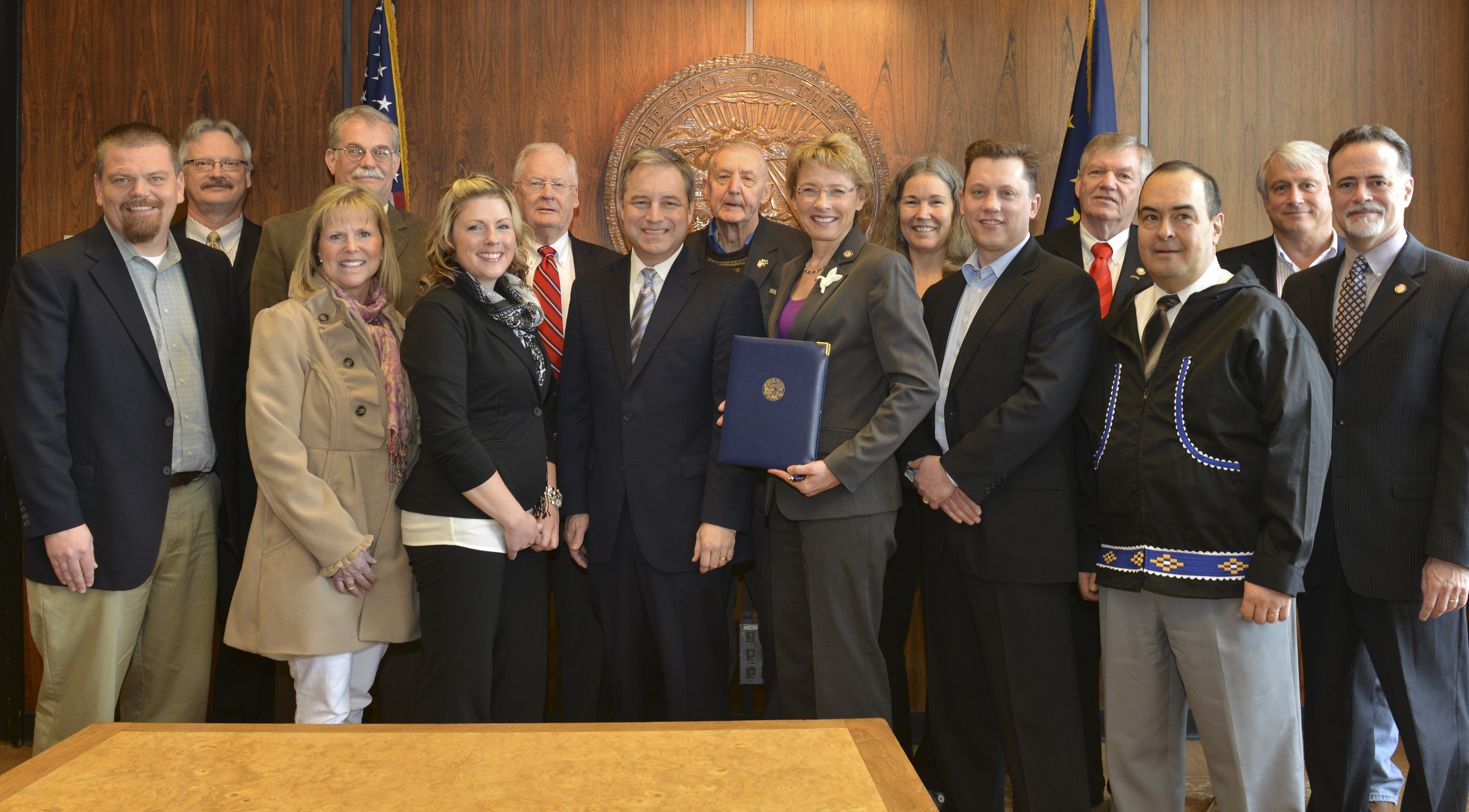 Alaska Governor Parnell along with SB 1 "Alaska Mining Day" bill sponsor, Senator Giessel, and members of the Alaska mining industry take a group picture during the signing ceremony on the third floor Governor's conference room of the Alaska State Capitol on April 12, 2013. Appearing (left to right): Mike Satre, Ed Fogels, Cathie Roemmich (Juneau Chamber CEO), Scott Hartman (Hecla Greens Creek General Manager), Deantha Crocket, Paul Richards, Governor Parnell, John Sandor (Former Regional Forester, former Commission ADEC), SB 1 bill sponsor Sen. Giessel, Jan Trigg, Wayne Zigarlick (Coeur Alaska VP & General Manager), Senate President Huggins, Sen. Olson, John MacKinnon (Executive Director of the Associated General Contractors of Alaska), Sen. Micciche.